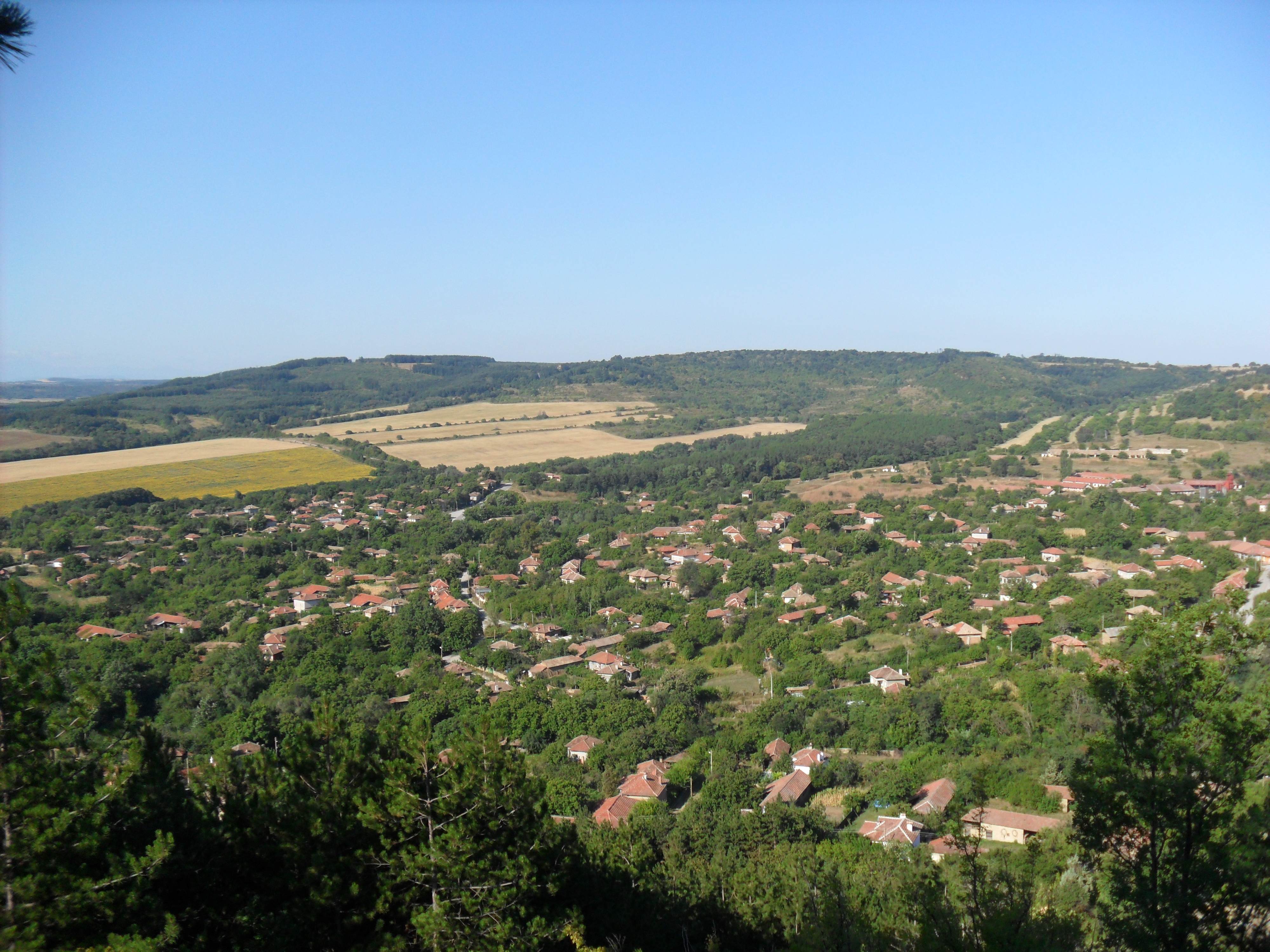 Photo from the hill Chucata of village Vishovgrad